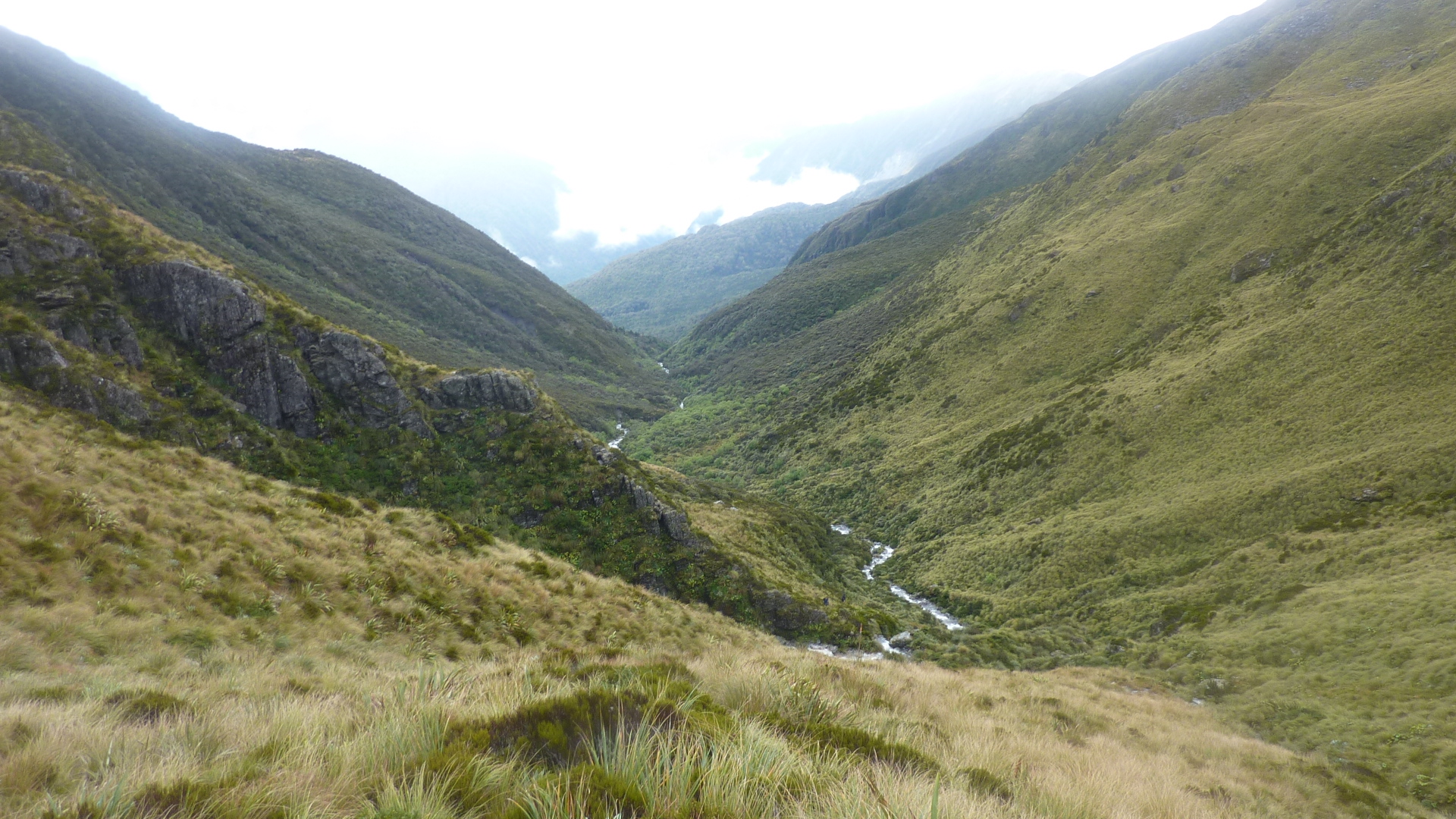 Hokitika River - Upper Reaches - Looking North from below Frew Saddle - Flowing towards the Mungo / Hokitika River Junction